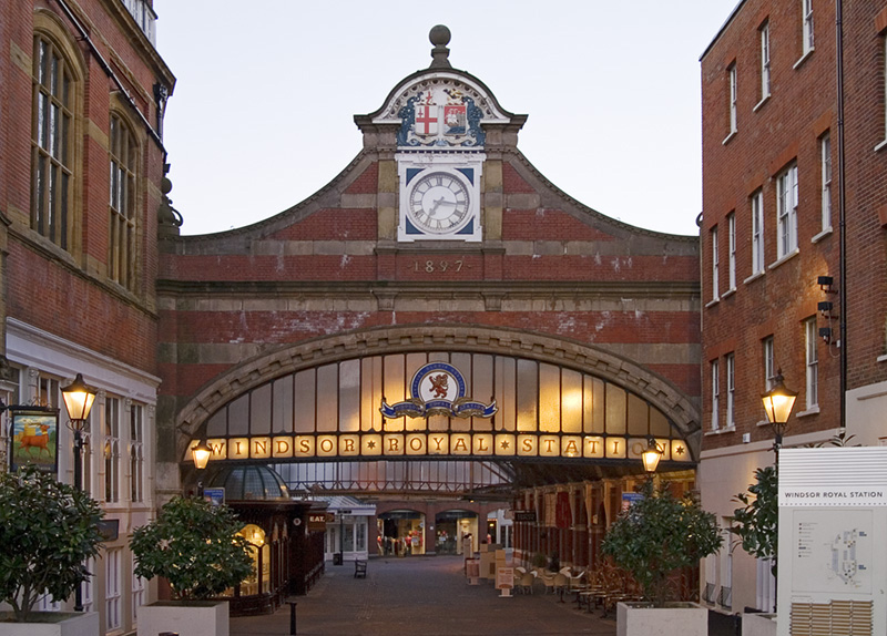 Windsor Central Station entrance opposite the castle Source: WyrdLight